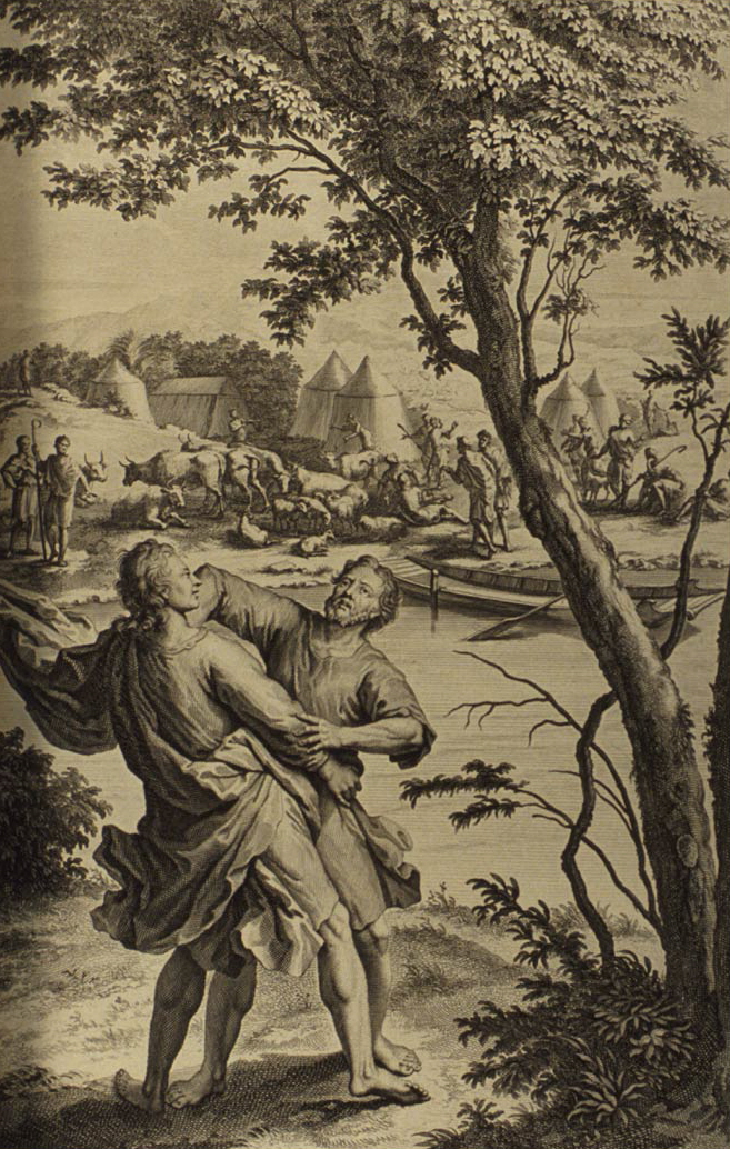 Jacob wrestles with an Angel, as in Genesis 32:24, "And Jacob was left along; and there wrestleth a man with him until the breaking of the day."; illustration from the 1728 Figures de la Bible; illustrated by Gerard Hoet (1648-1733) and others, and published by P. de Hondt in The Hague; image courtesy Bizzell Bible Collection, University of Oklahoma Libraries